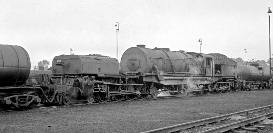 SAR Class GM 2298 (4-8-2+2-8-4) Location: Krugersdorp Shed